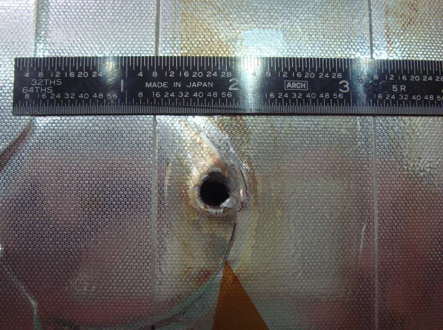 Image of the entry hole created on Space Shuttle Endeavour's radiator panel by the impact of unknown space debris.